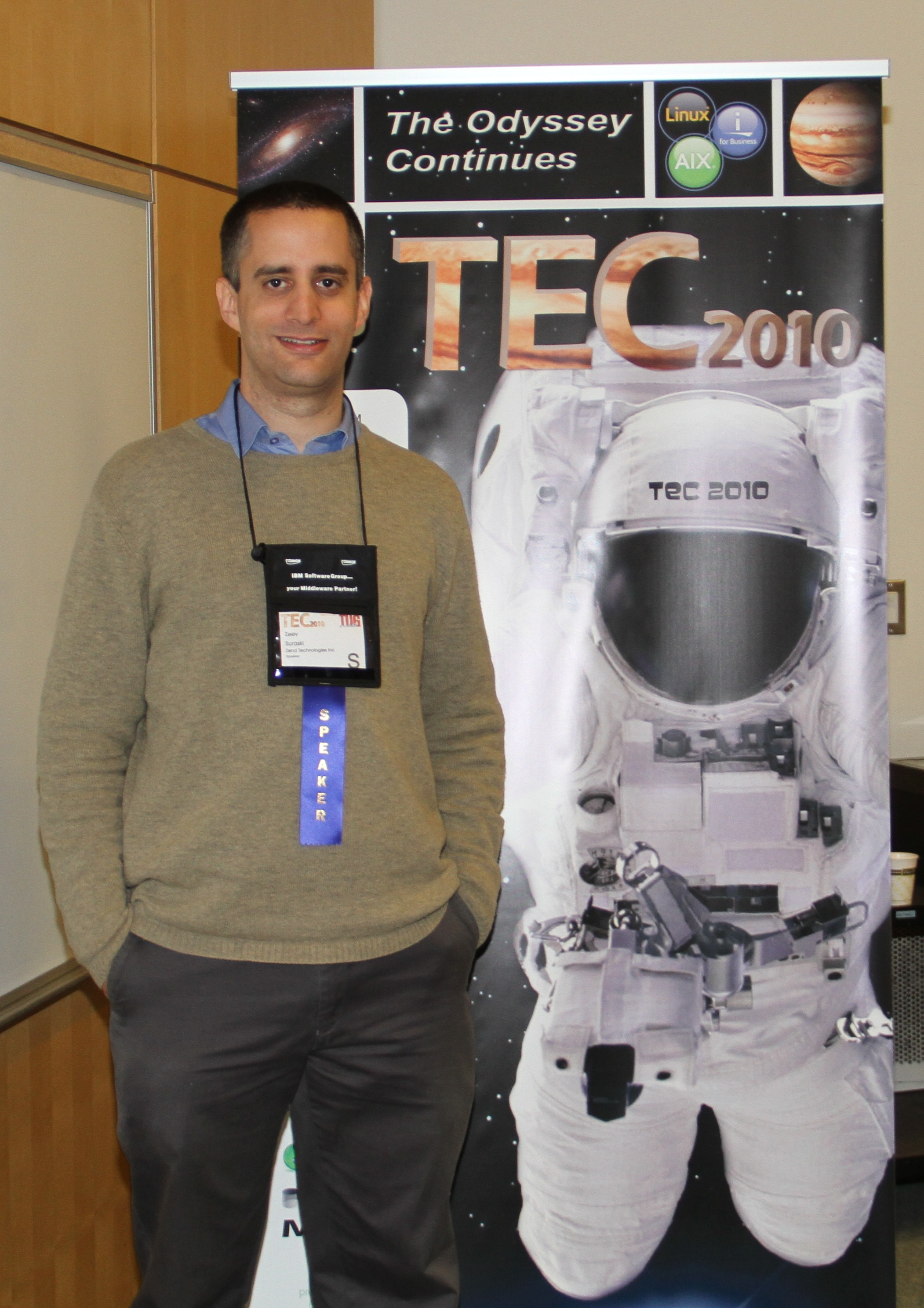 Zeev Suraski at TEC 2010 conference. Photo taken by Léo Lefebvre (President of TUG).